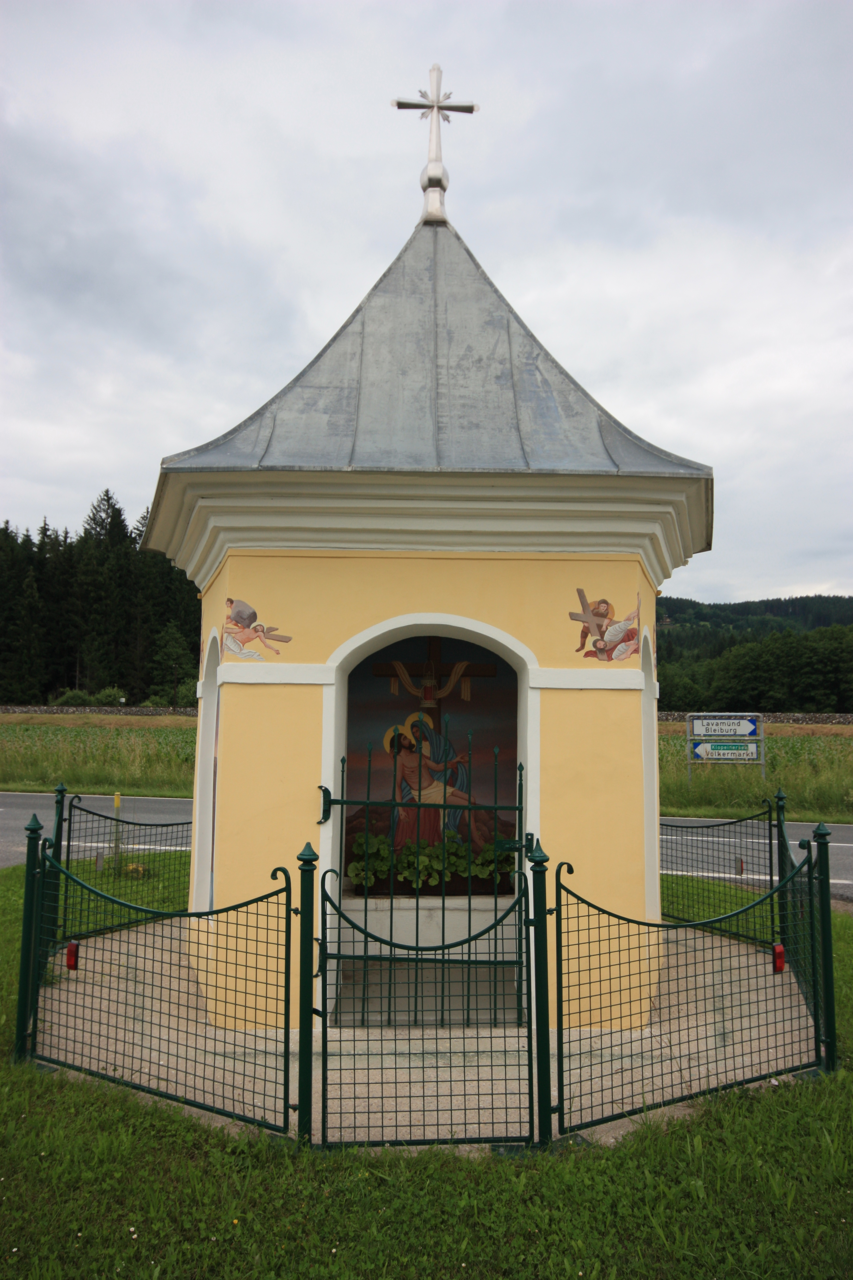 Octonal wayside shrine in the North of Gonowetz (Konovece) in the community of Feistritz ob Bleiburg, Carinthia